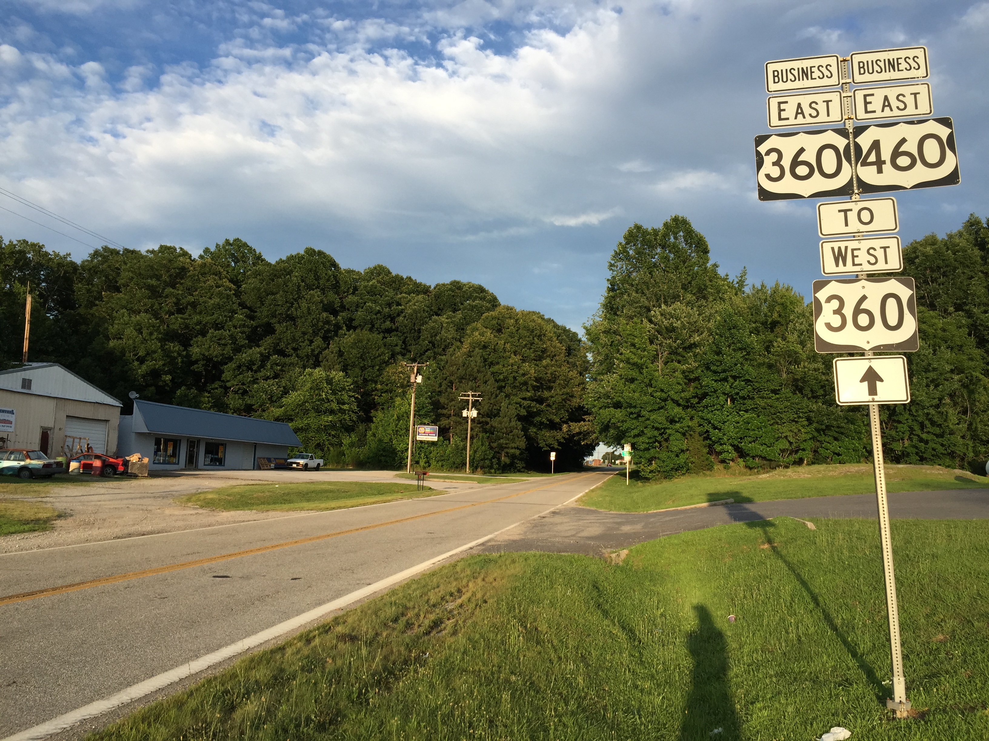 View east along U.S. Route 360 Business and U.S. Route 460 Business (Second Street) at Virginia State Secondary Route 716 just west of Burkeville in Nottoway County, Virginia